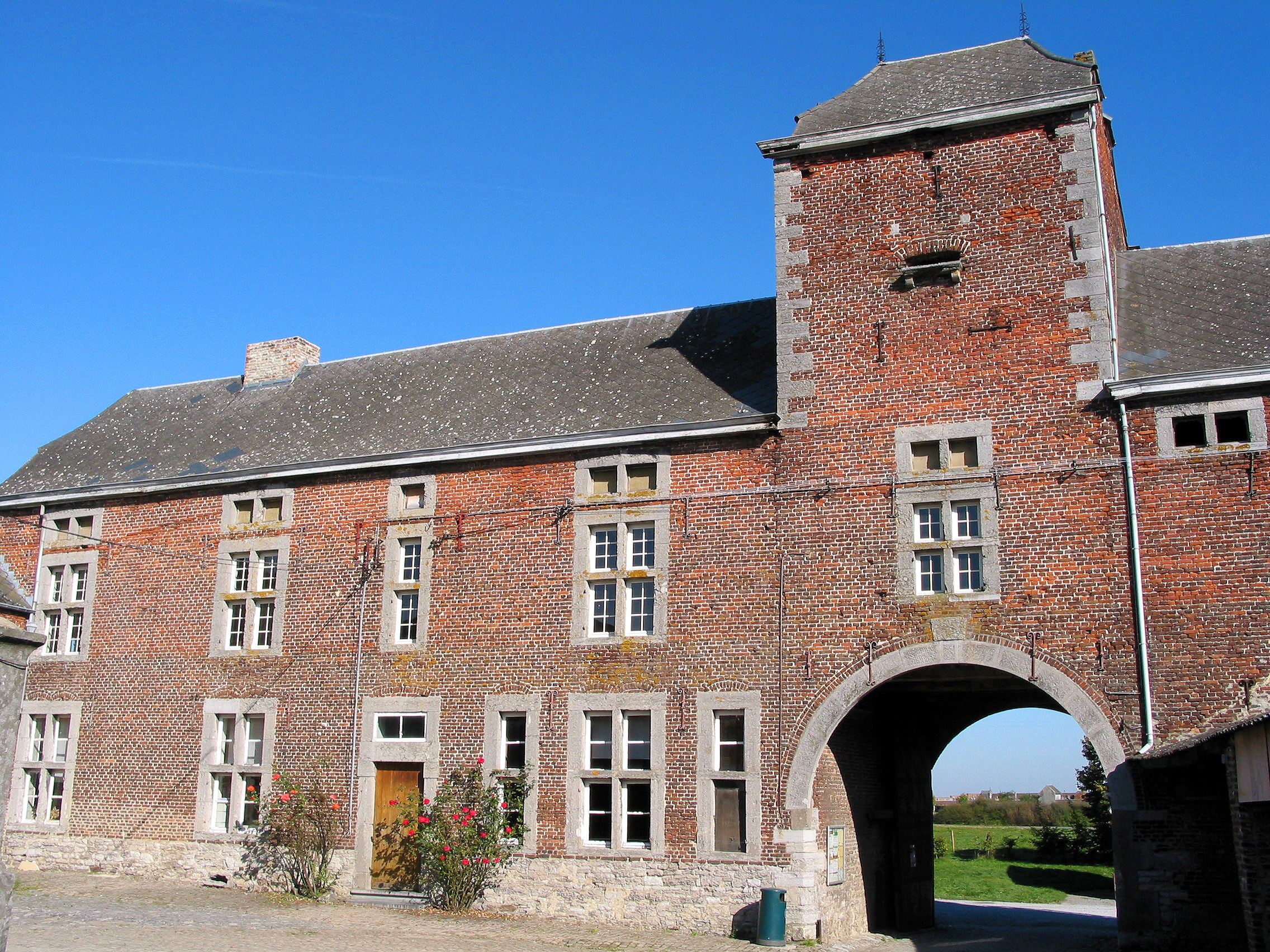 Burdinne (Belgium), Habitation and dovecote porch of the "de la Grosse Tour" castle farm (XVI - XVIIIth century).